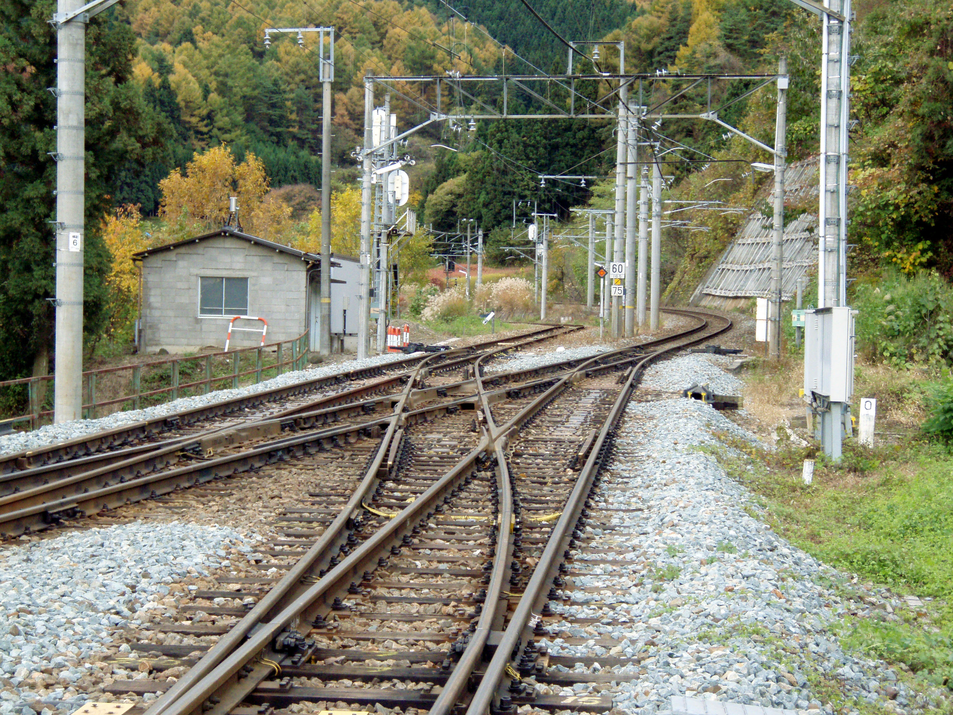 Shinonoi Line Haneo Signal Base, view from the passing loop towards Kamuriki